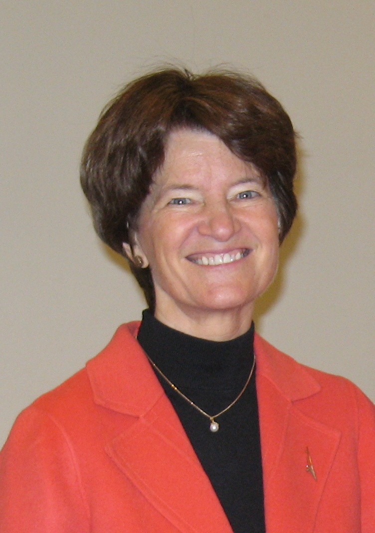 I got to interview astronaut and physics professor Dr. Sally Ride today. We talked about her new company Sally Ride Science . I'll have it posted on Conference Connections soon.